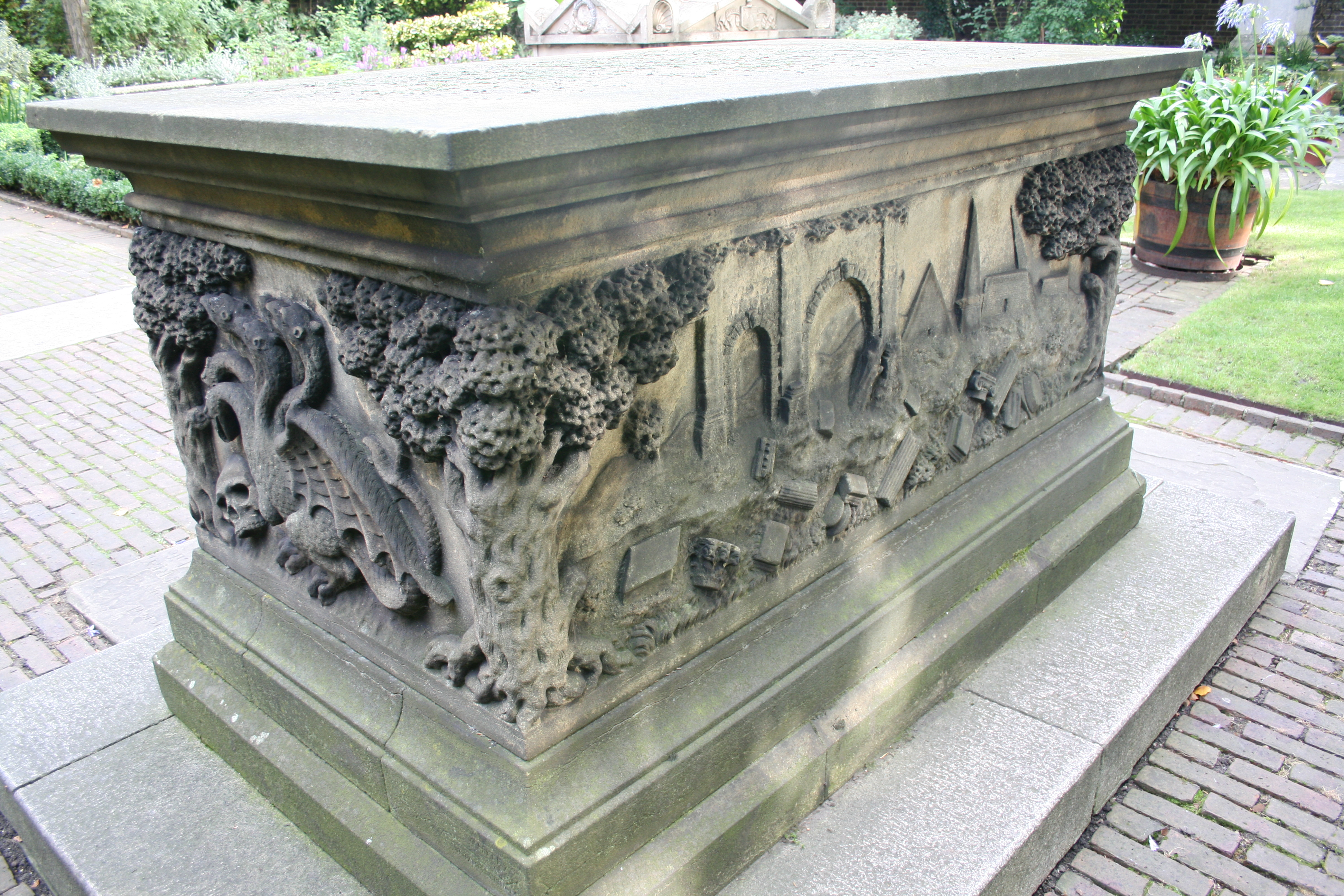 Tomb of John Tradescant and His Family in St Mary's Churchyard